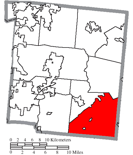 Map of the municipal and township boundaries of Warren County, Ohio, United States, as of the 2000 census, with the location of Harlan Township highlighted. Township borders are shown only in unincorporated areas in order to differentiate incorporated and unincorporated areas more clearly.